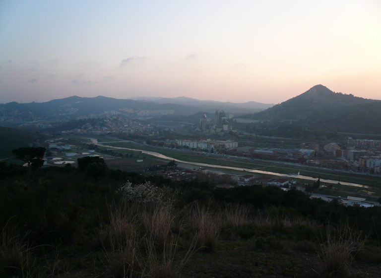 Besòs river at Montcada i Reixac seen from turó d'en Tort. The hill at right is turó de Montcada